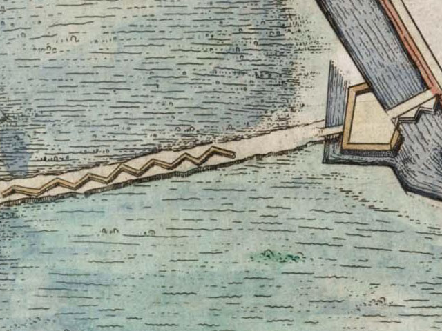 Part of map of the capture of Breevoort (Bredevoort) in 1597 by Maurice of Orange. Left page of the Atlas van Loon/Tonneel der Steeden, without the map of Bredevoort in 1649.